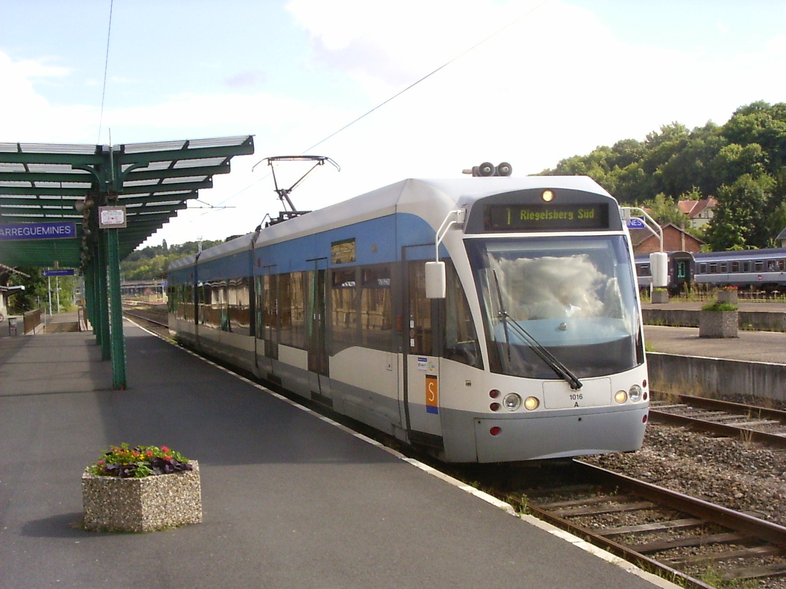 Saarbruecken streetcar at Sarreguemines train station